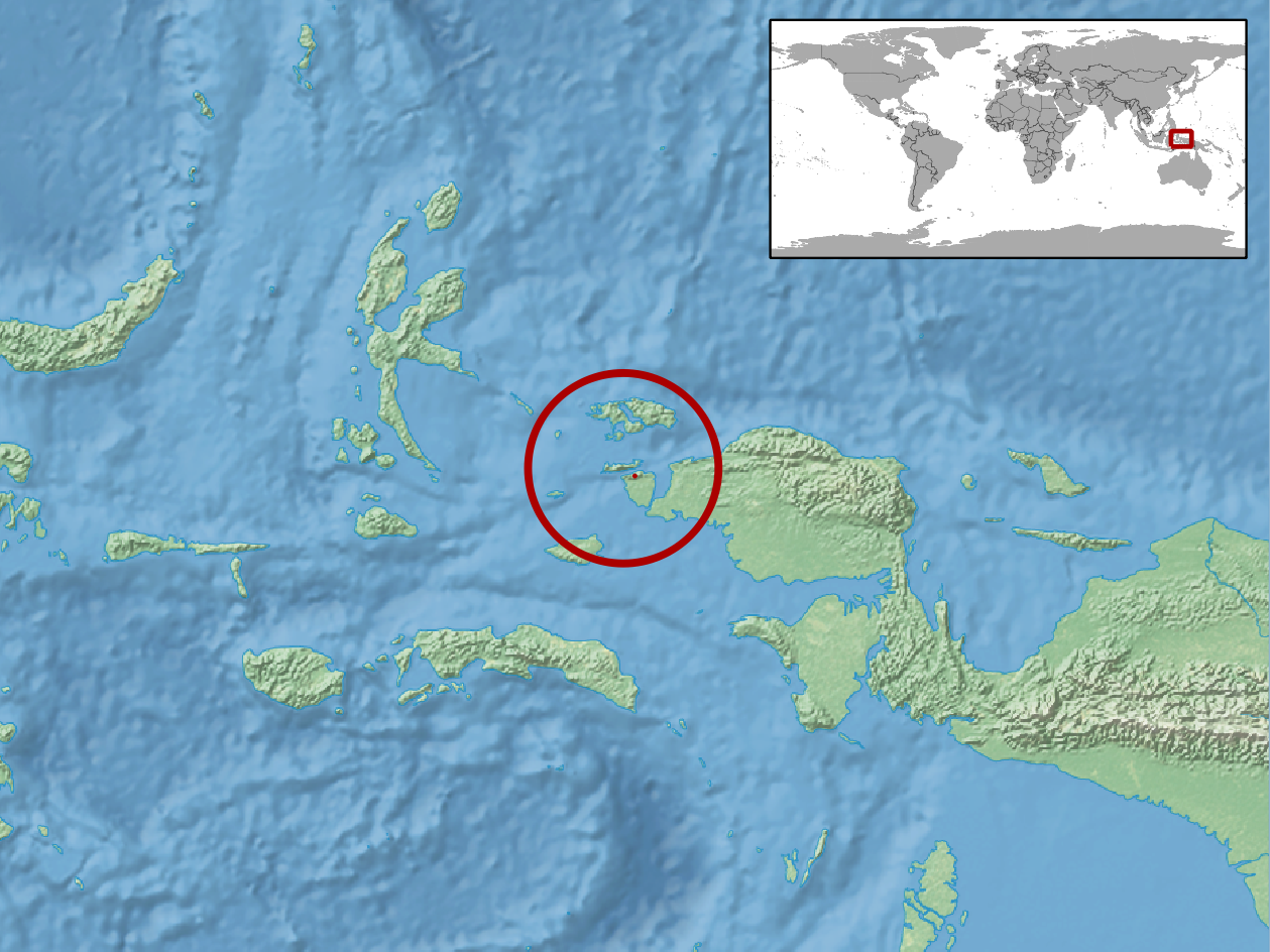 geographic distribution of Cyrtodactylus irianjayaensis